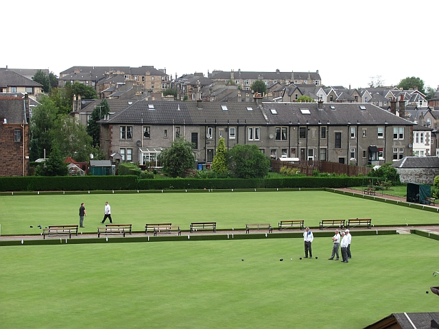 Rutherglen Bowling Club